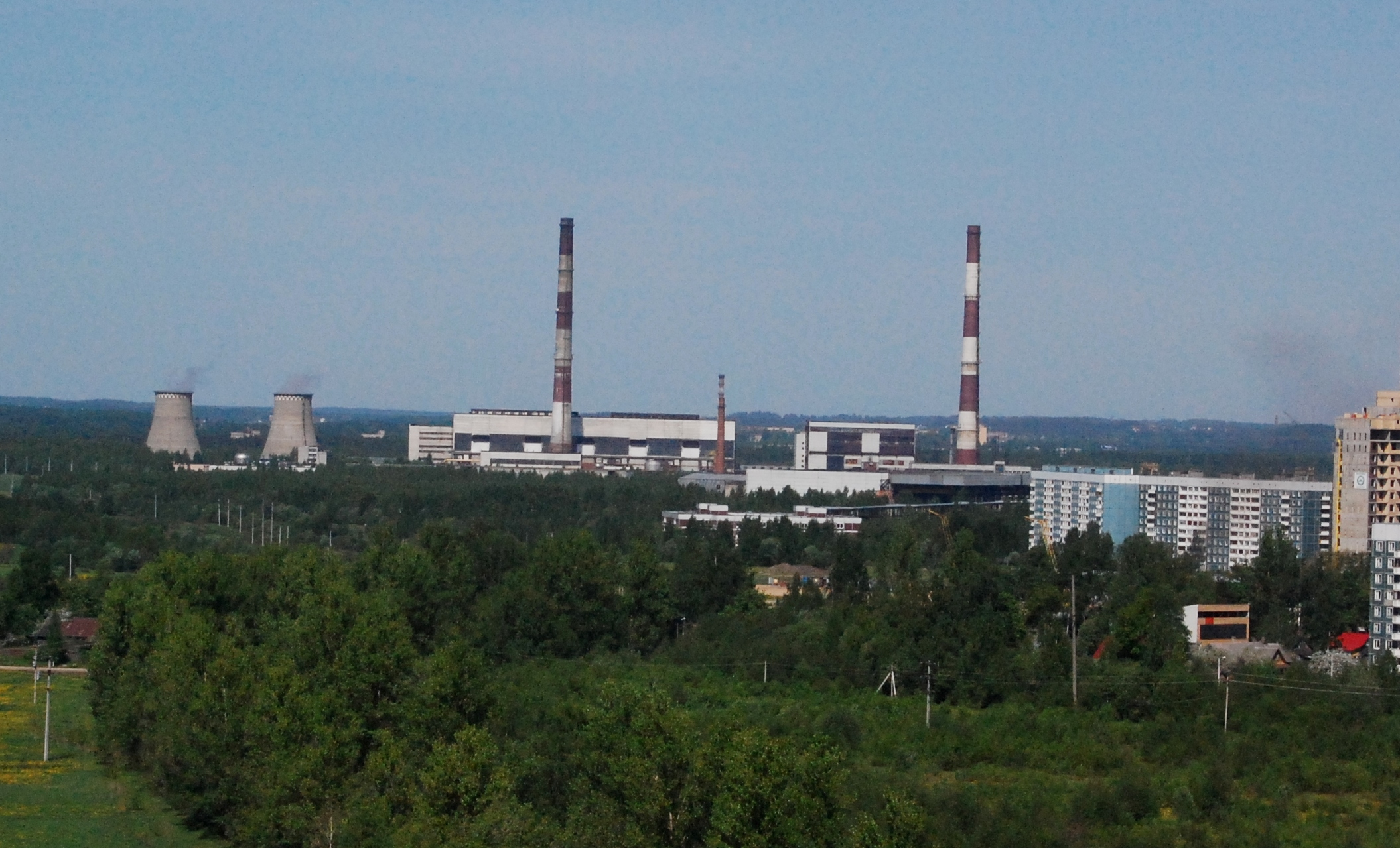 North CHP power station in Saint-Petersburg